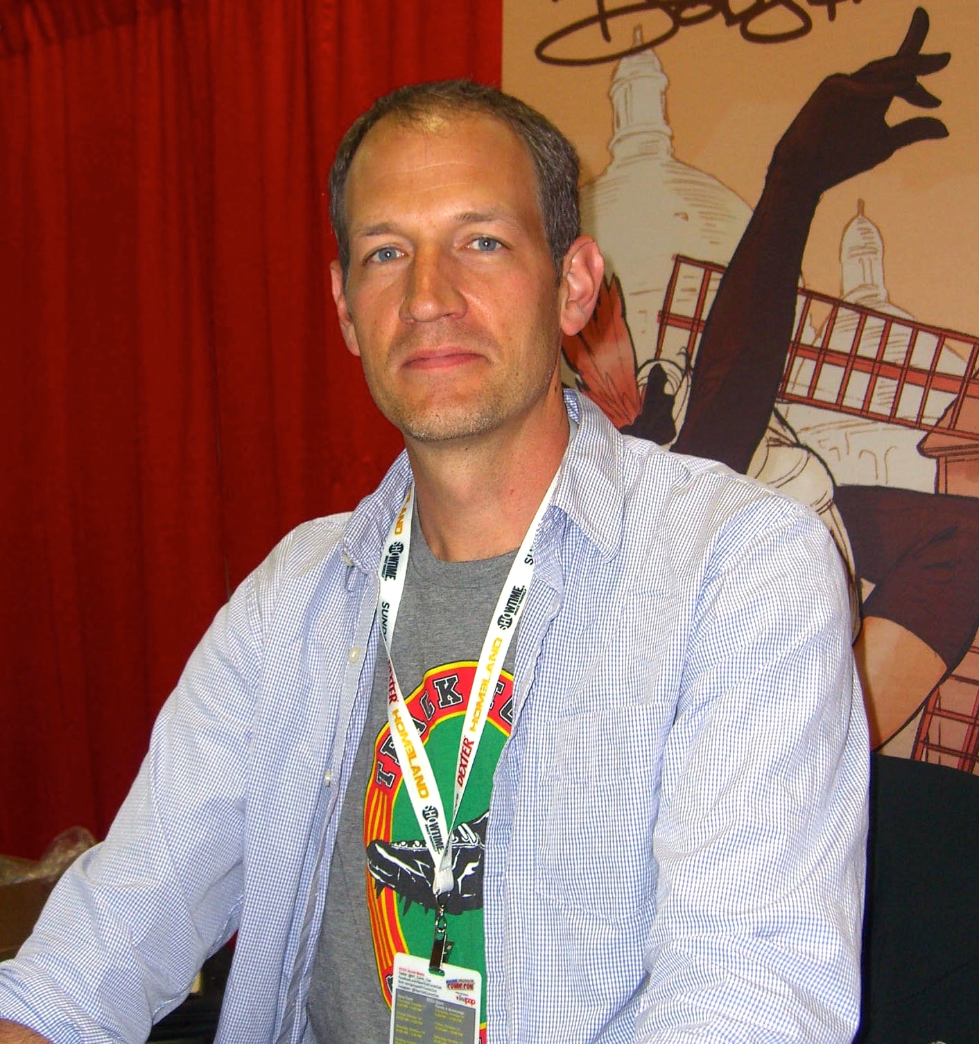 Comics creator Terry Dodson on Day 2 of the 2012 New York Comic Con, Friday October 12, 2012 at the Jacob K. Javits Convention Center in Manhattan. This photo was created by Luigi Novi. It is not in the public domain, and use of this file outside of the licensing terms is a copyright violation.